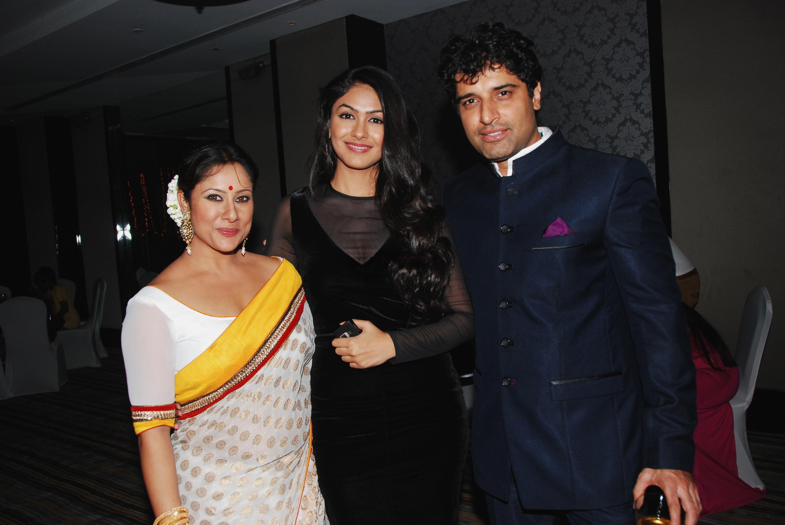 Mrunal Thakur at the launch of Thoughtrain Entertainment.